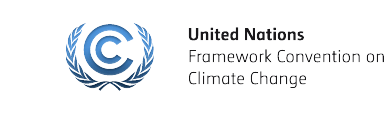 UNFCCC logo 2011